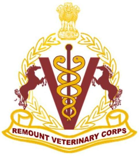 Insignia of the Remount and Veterinary Corps of India